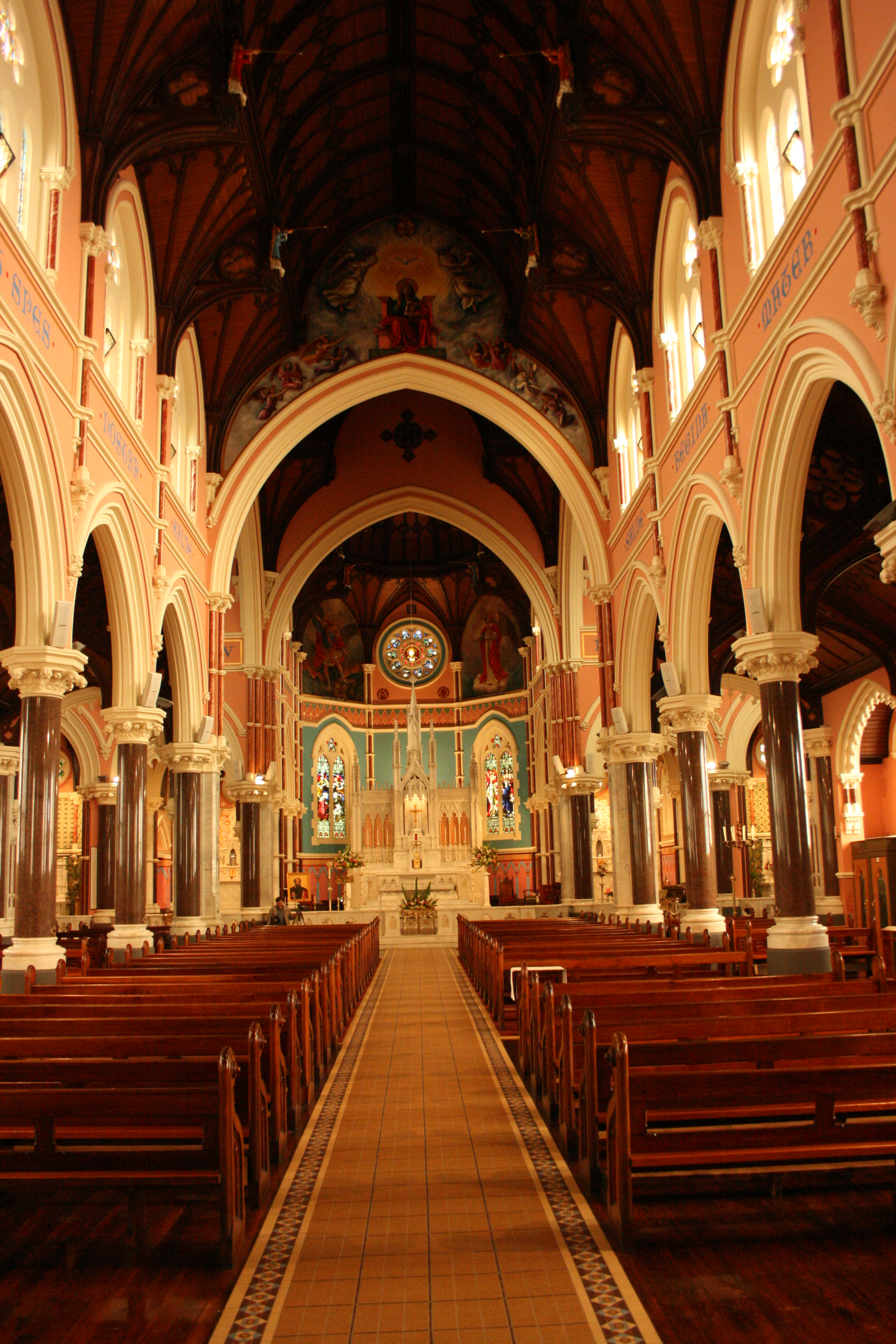 High Altar at Star of the Sea